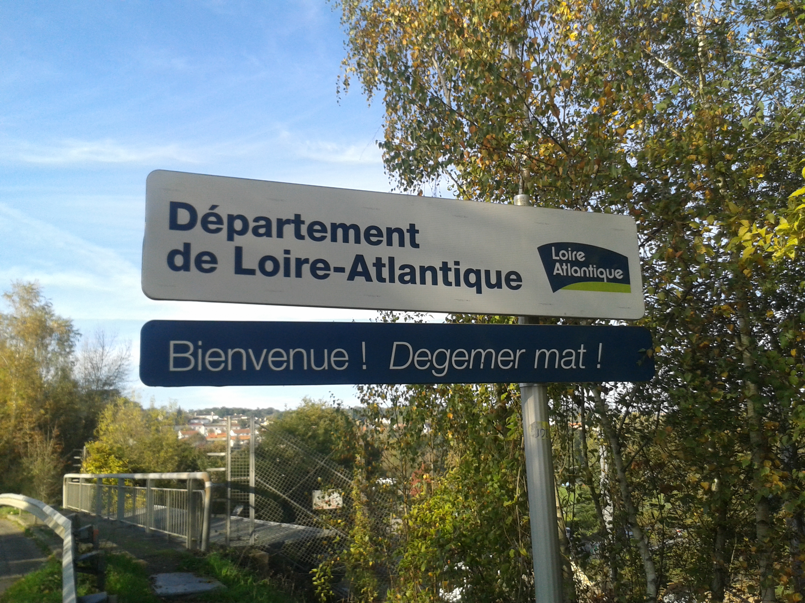 Bilingual sign at the entrance of Loire-Atlantique (France) from Maine-et-Loire, near the railway. The sign reads: Département de Loire-Atlantique [French : Department of Loire-Atlantique] Bienvenue ! Degemer mat ! [Welcome ! in French and Breton]